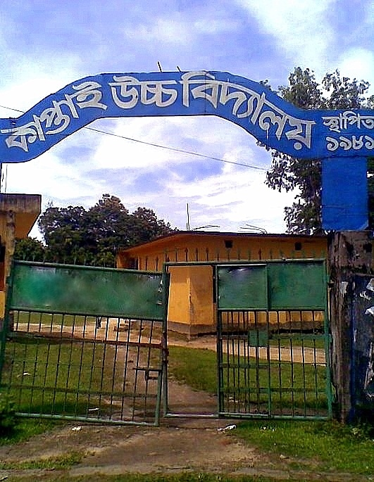 "Kaptai High School, Rangamati (কাপ্তাই হাই স্কুল) in the hill tracts area of Rangamati in Bangladesh. It was established in 1981 in Kaptai, Rangamati, Chittagong.